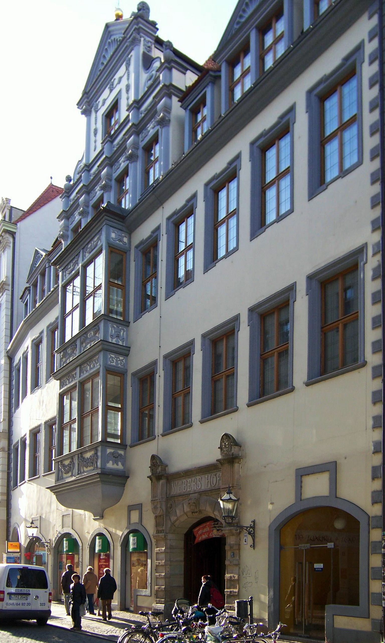 The Webers Hof (built in 1662) in Leipzig, Germany.